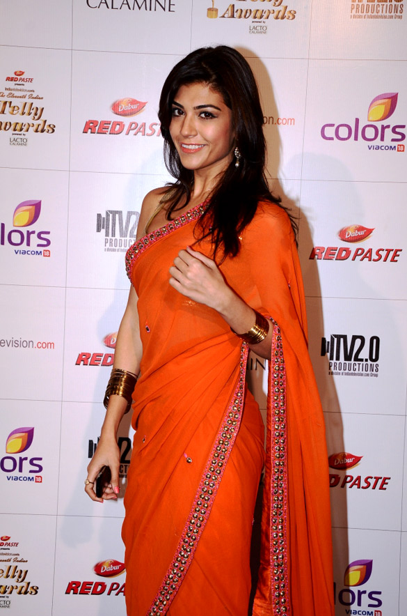 Colors indian telly awards